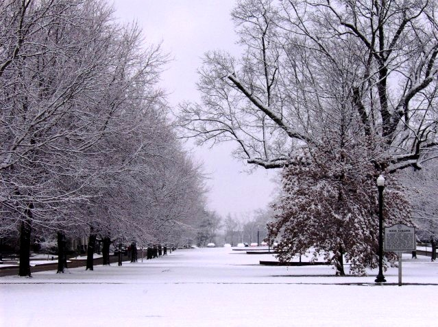 The main quad at Tennessee Technological University in Cookeville, Tennessee, in early February 2006.